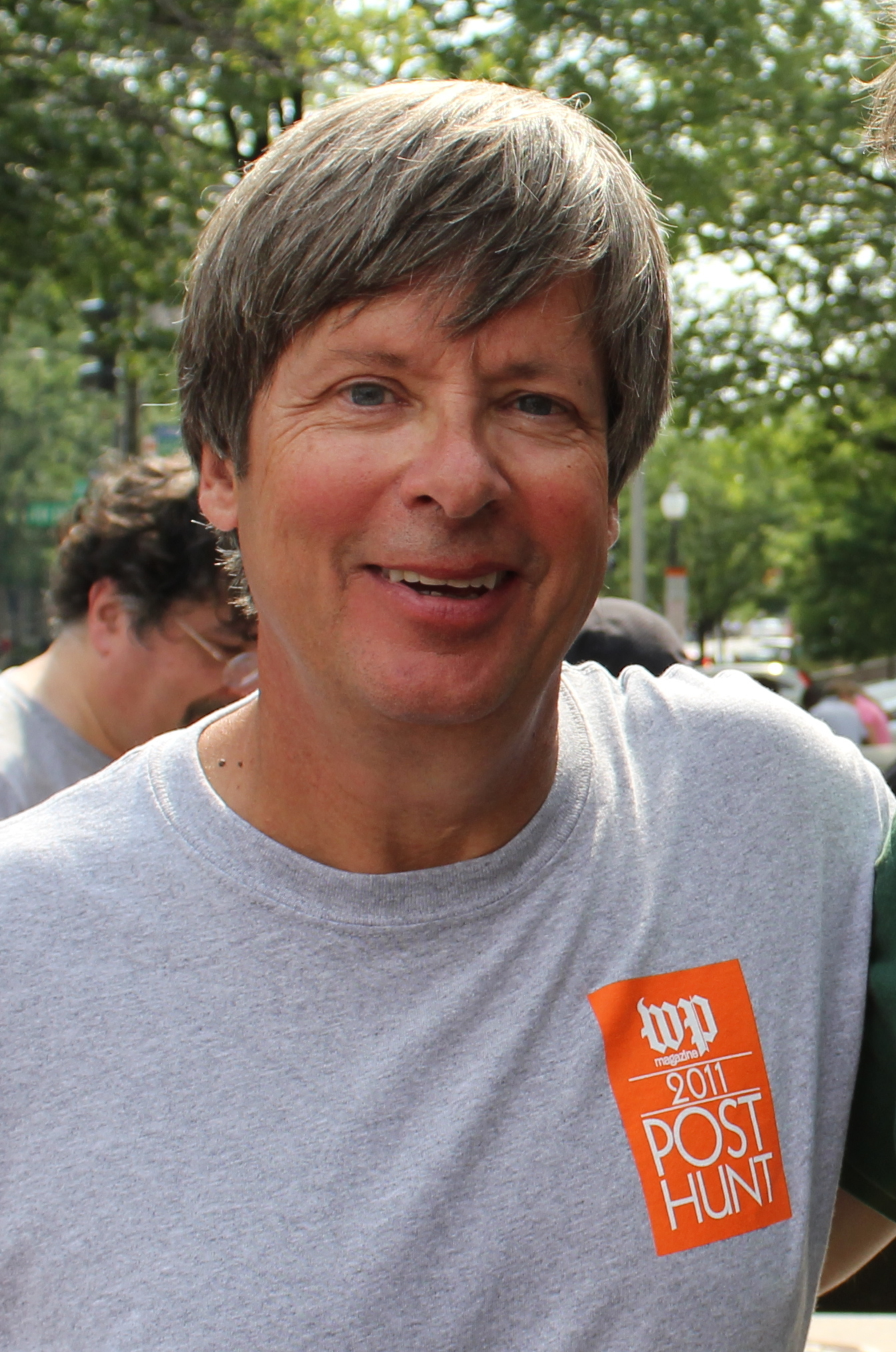 Portrait of Dave Barry, taken after the Washington Post Hunt June 5, 2011